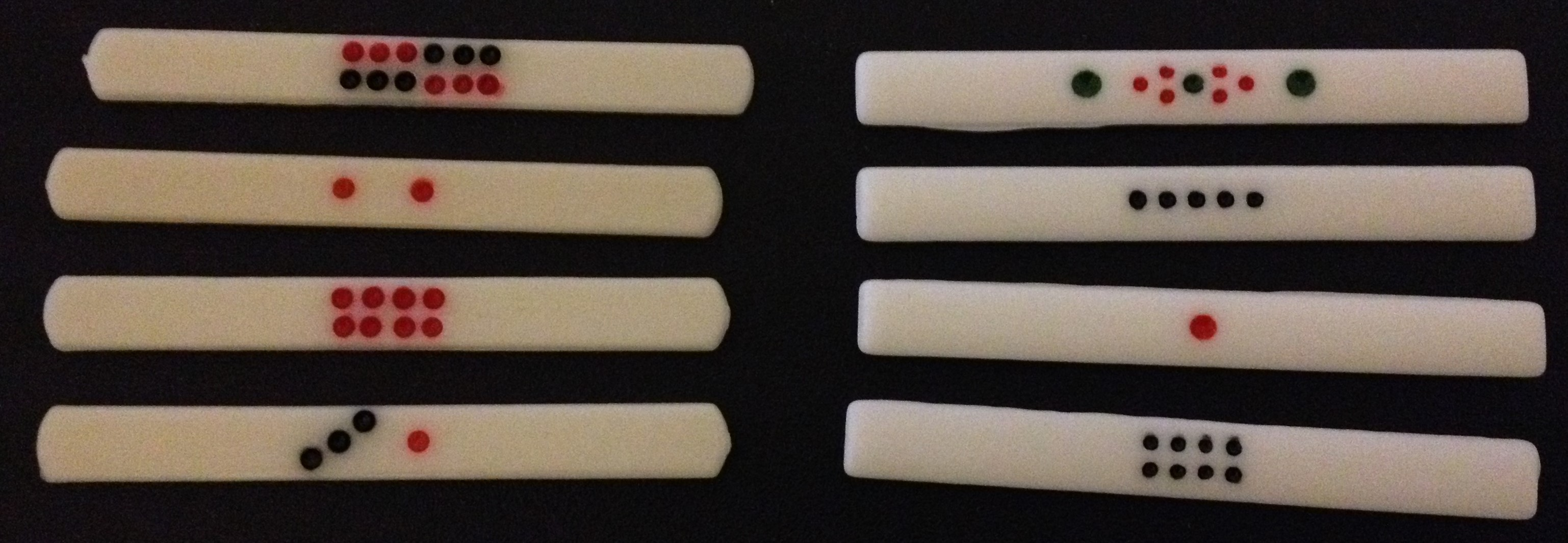 These sticks are used to keep score in mahjong. The ones on the right are Japanese while the ones on the left are Chinese. The Chinese ones are based on dice and domino ranking from the civil (文)/Chinese (華) suit (as in Tien Gow). From top to bottom: Heaven (天), Earth (地), Man (人), Harmony (和).